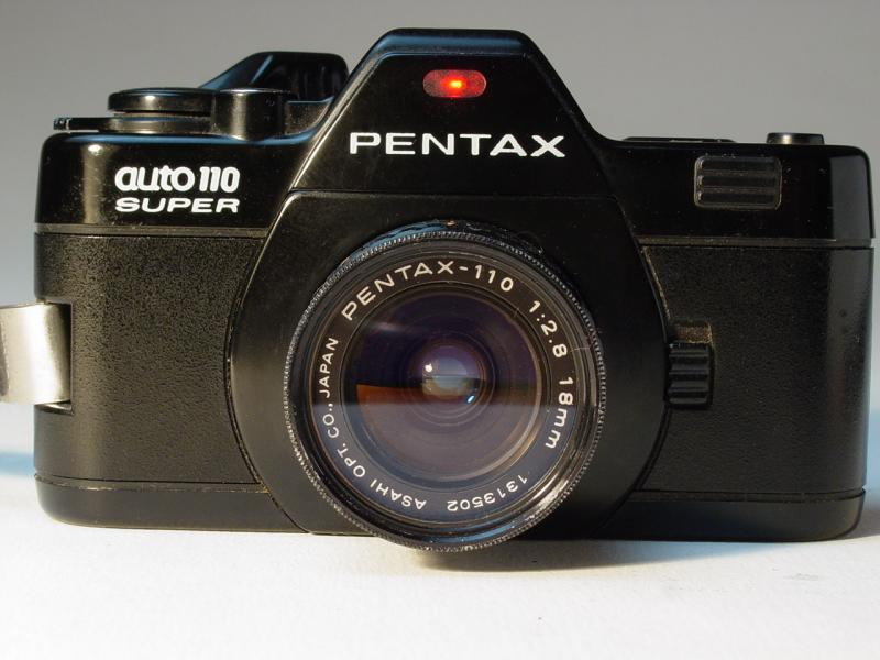 Author: Paul M. Provencher; Source: Author Created Image; URL=